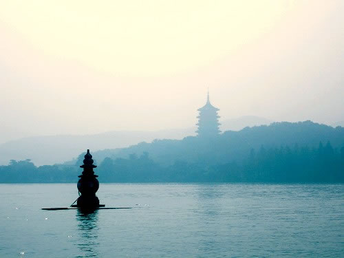 Three_Ponds_Mirroring_the_Moon_With_Leifeng_Pagoda in Xihu lake(Westlake) ，hangzhou city，Zhejiang Province。